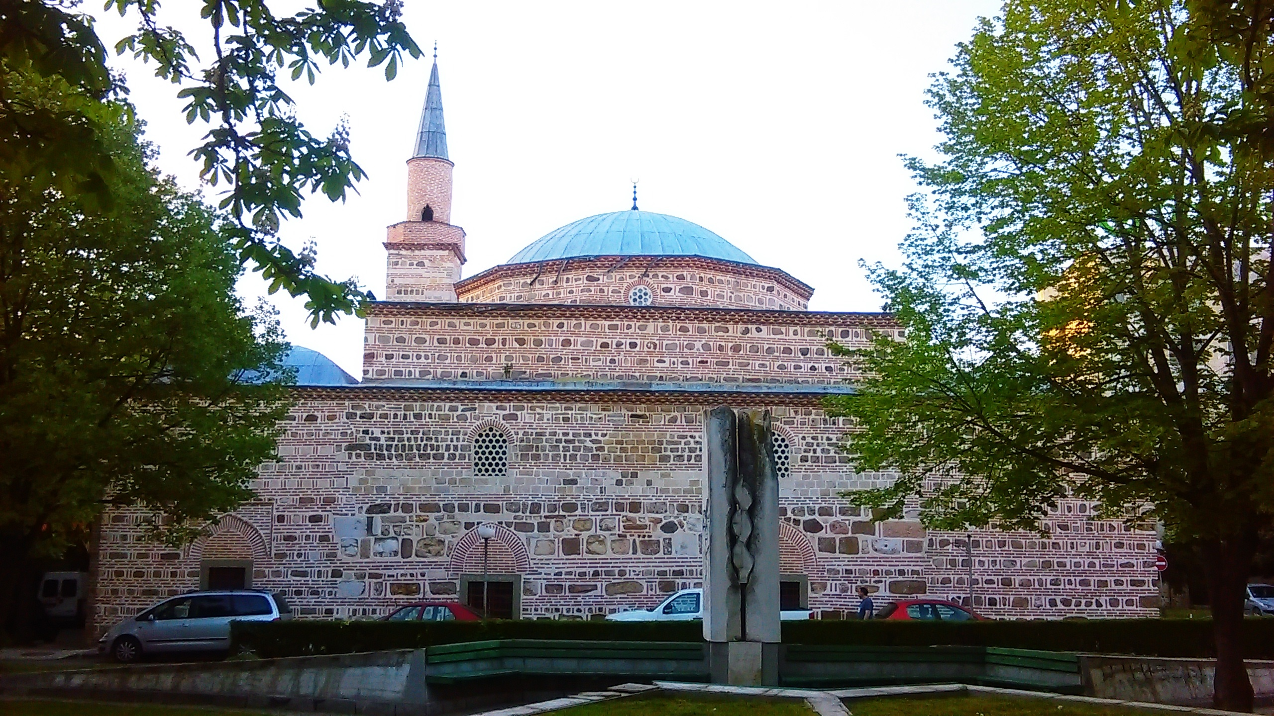 Eski Cami mosque in Yambol, Bulgaria